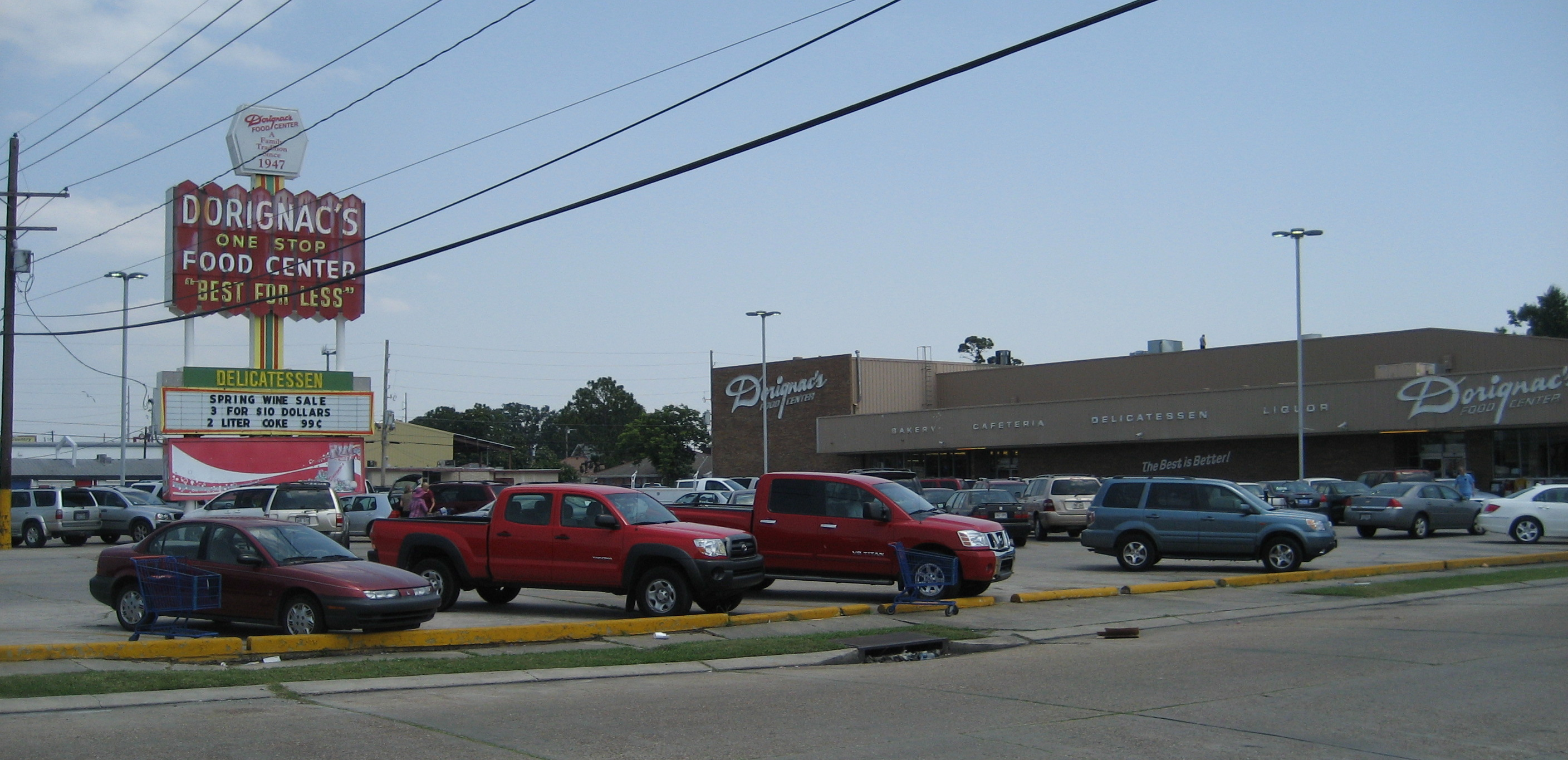 Veterans Highway commercial area, Metairie, Louisiana. Dorignac's Grocery Store.